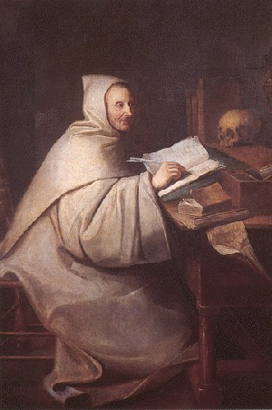 Portrait of Abbot Armand Jean le Bouthillier de Rancé (1626-1700) (Soligny-la-Trappe, abbaye de La Trappe, France)